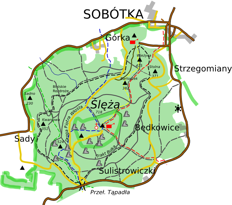 Sleza mountain in Lower Silesia